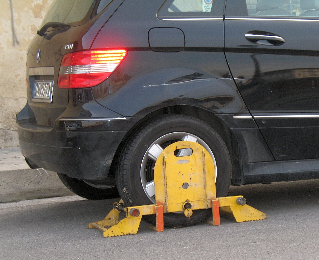 Wheel clamp on a car at Lungarno Soderini in Florence